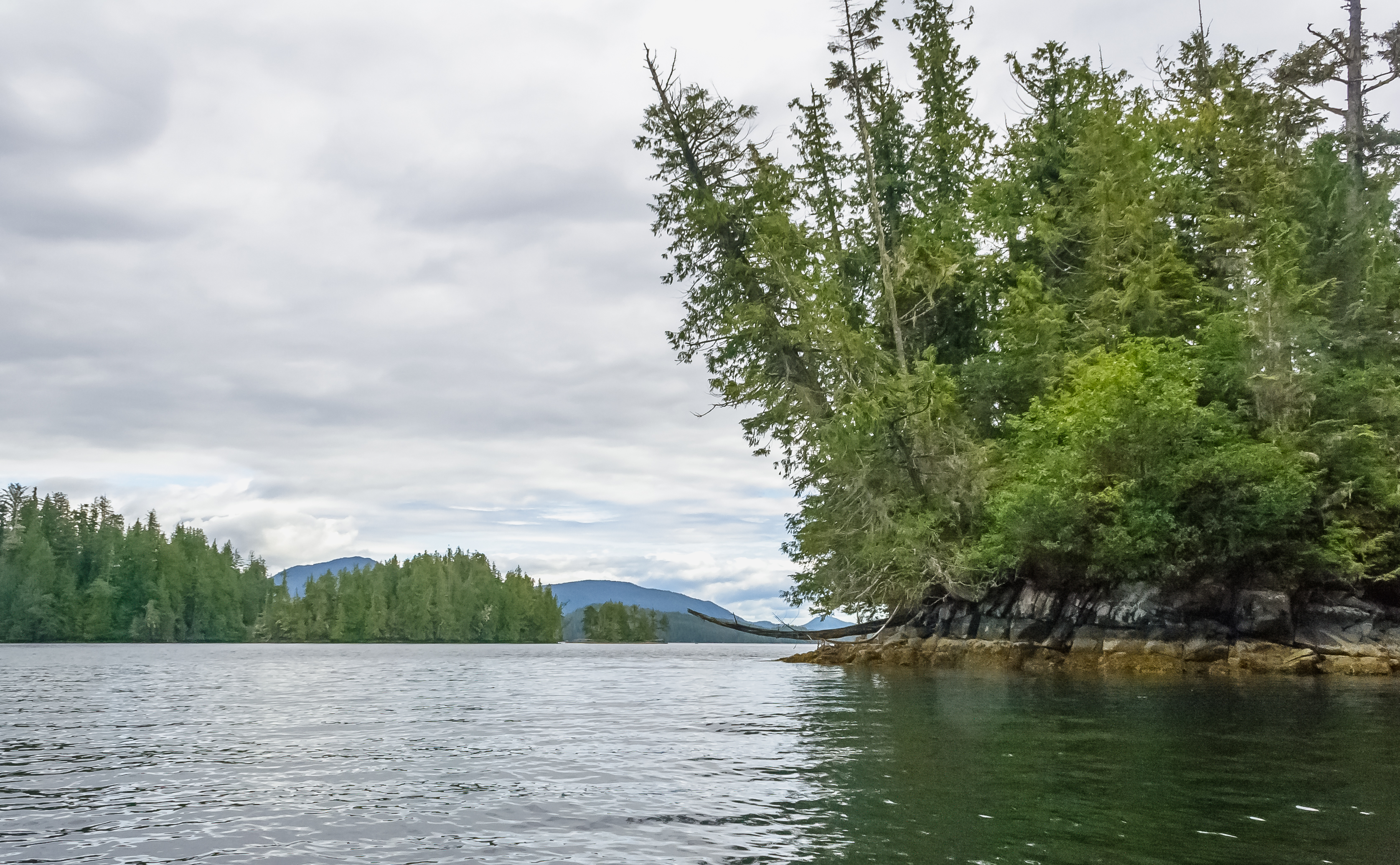 The eastern shoreline of Penrose Island with a view down Klaquaek Channel towards Rivers Inlet This photo was taken in a protected area in Canada, Wikidata item Penrose Island Marine Provincial Park (Q15265922)